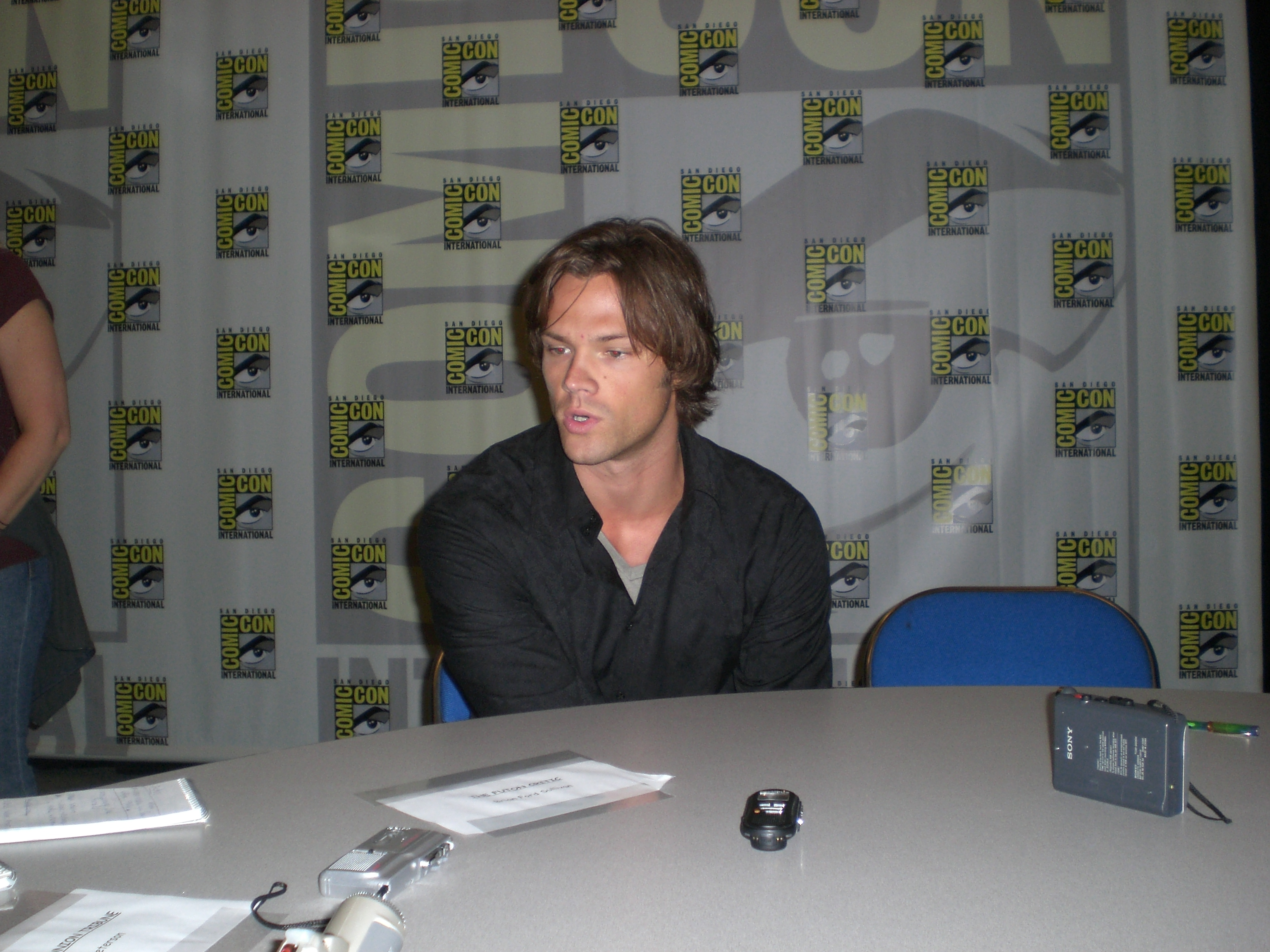 Jared Padalecki at the Comic-Con International 2008